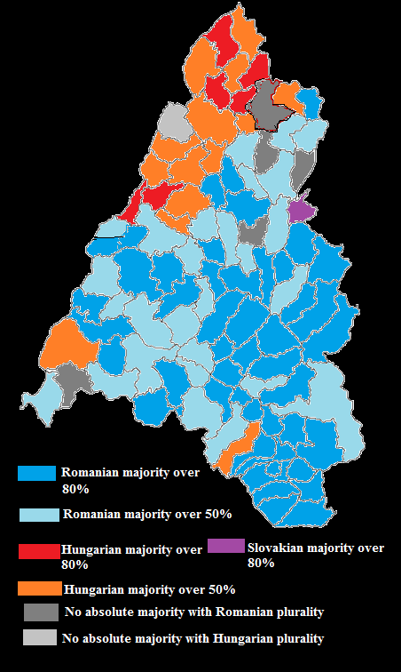 Ethnic map of Bihor County, based on the 2011 census.